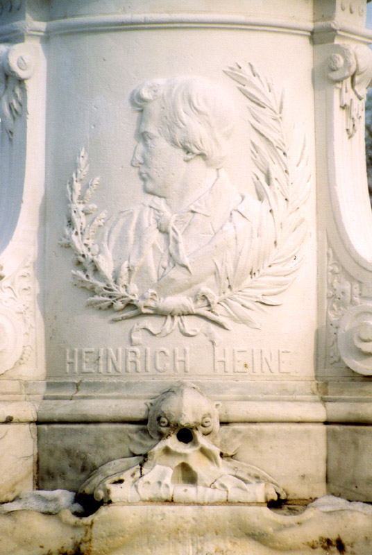 Ernst Herter (1846–1917) DescriptionGerman sculptorDate of birth/death14 May 184619 December 1917Location of birth/deathBerlinBerlinWork locationBerlinAuthority control : Q871262 VIAF: 77111692 ISNI: 0000 0001 2102 5176 ULAN: 500267506 LCCN: n87129740 GND: 118774247 WorldCat